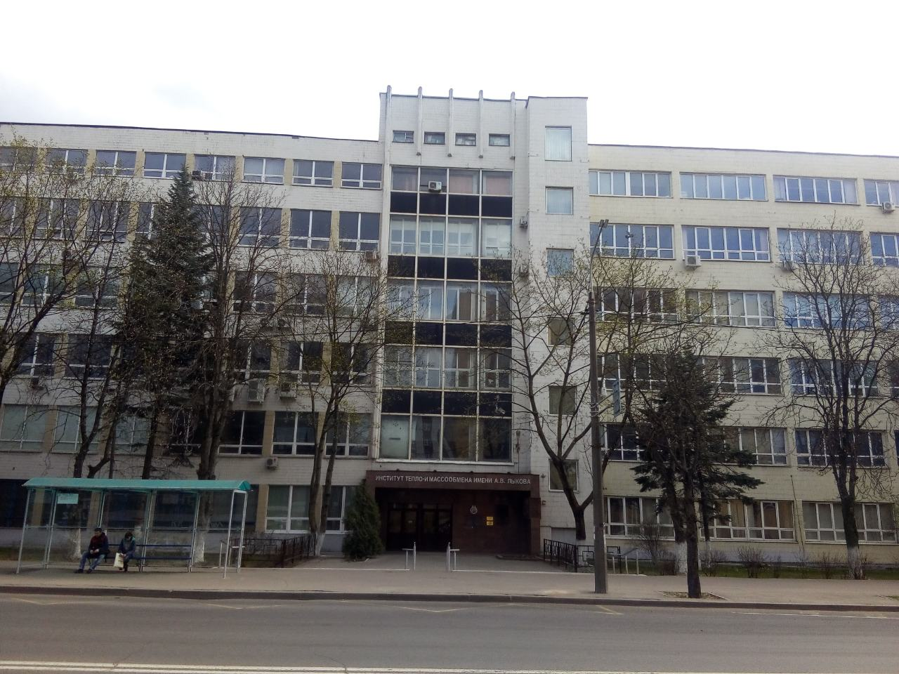 Heat and Mass Transfer Institute of the National Academy of Sciences of Belarus (15 Broŭki Street, Minsk; 20th of April, 2019)